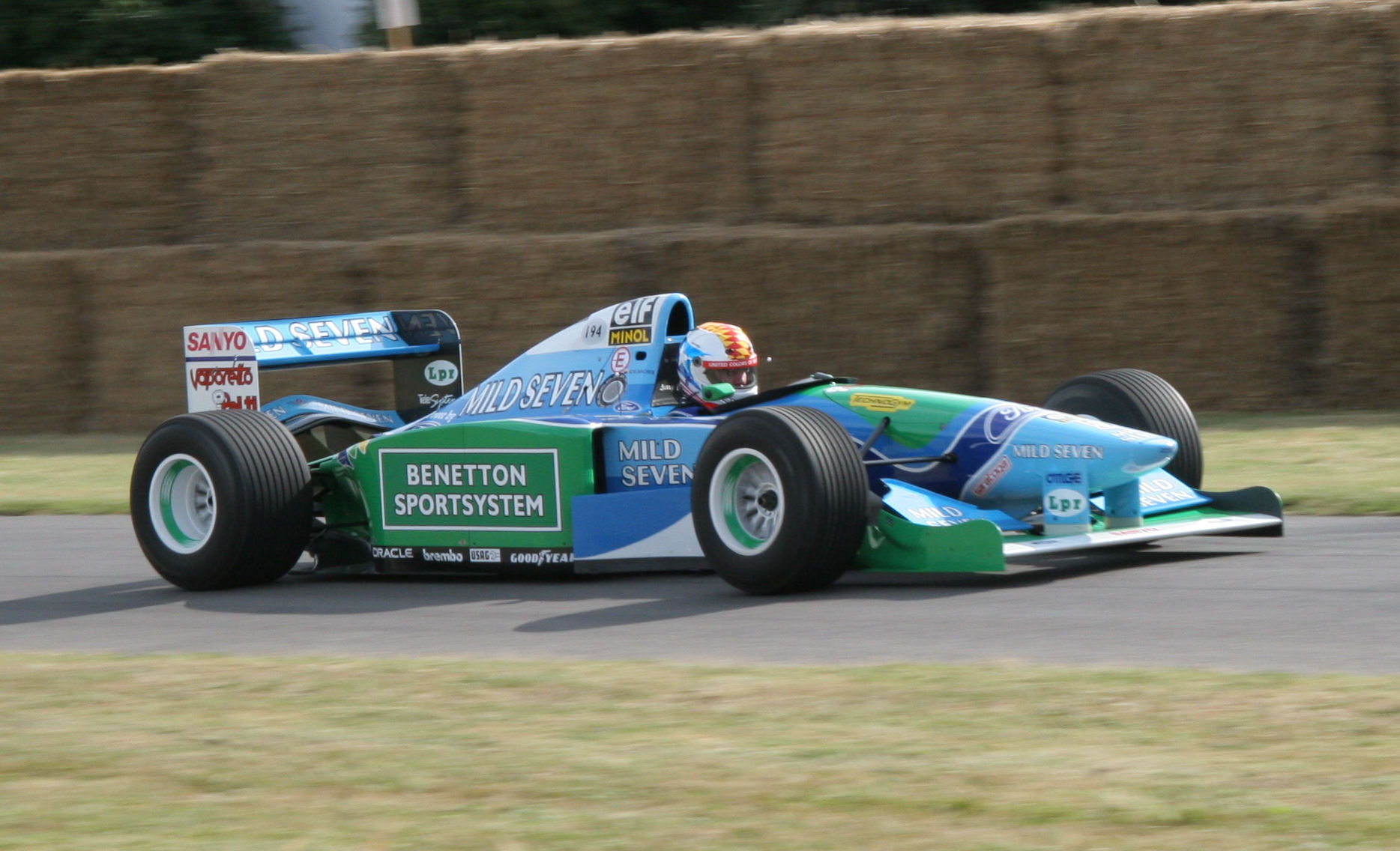 Benetton B194 car at 2006 Goodwood Festival of Speed